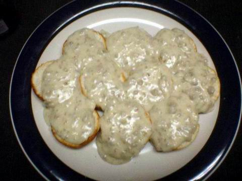 Biscuits and gravy, cooked & photographed July 20, 2008, by Adolphus79.